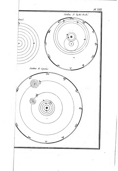 It is an image taken from the Histoire de l'astronomie moderne.